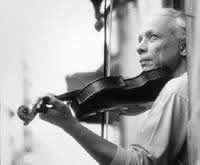 Jorge Pinchevsky